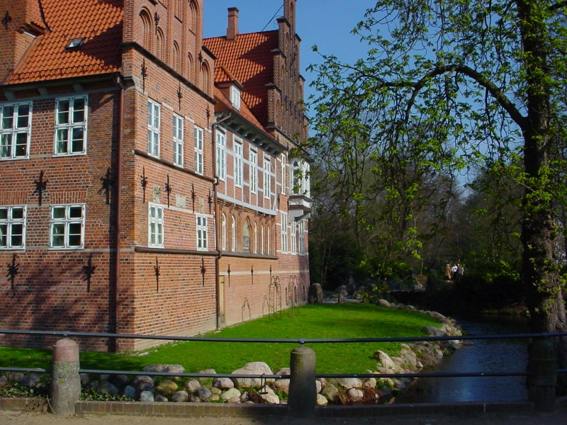 Castle of Bergedorf